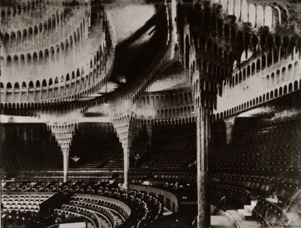 Grosses Schauspielhaus in Berlin, before 1933